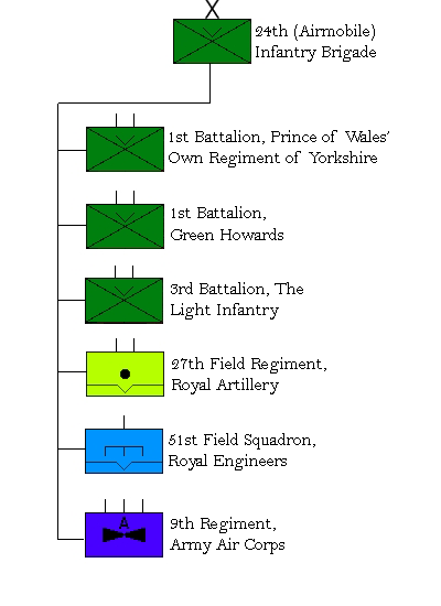 24th Airmobile Infantry Brigade